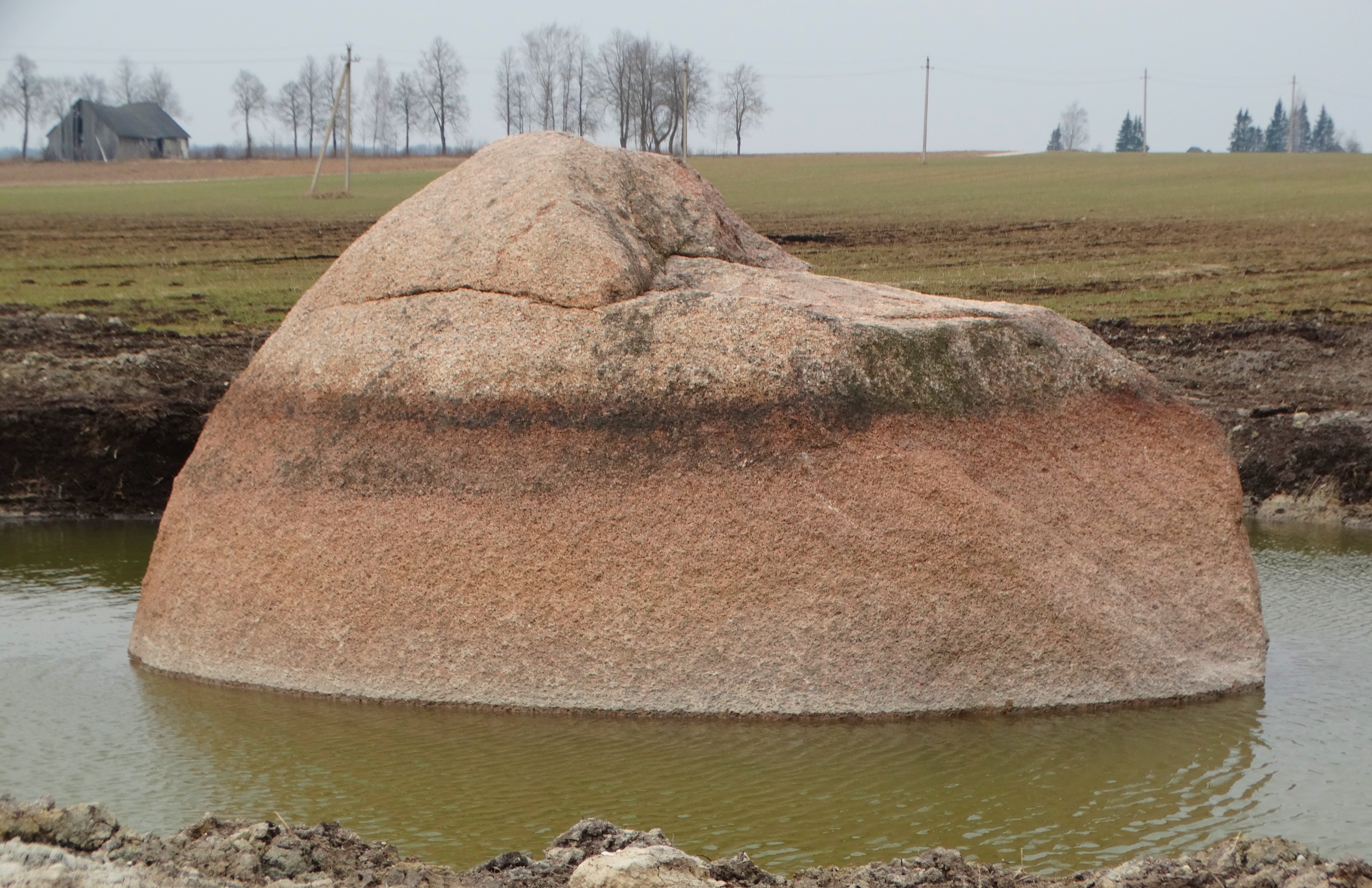 Stone in Veršiai, Joniškis District, Lithuania